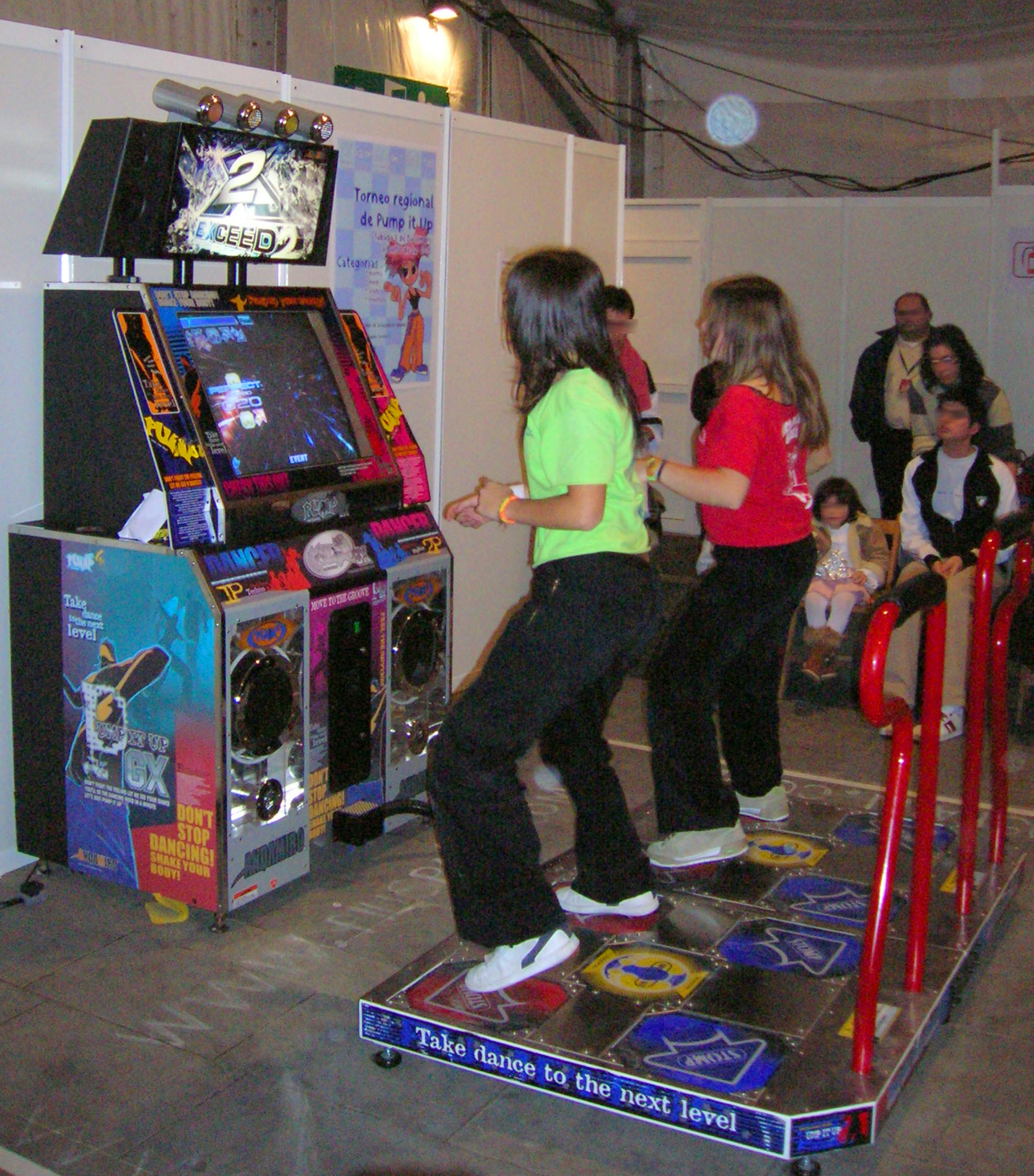 Pump it up championship in IV Getxo Comic Con.